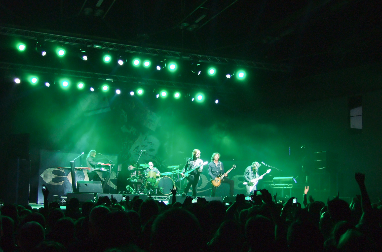 The Swedish rock band Europe performing in Festivalna hall, Sofia during their Bag of Bones tour 2012.